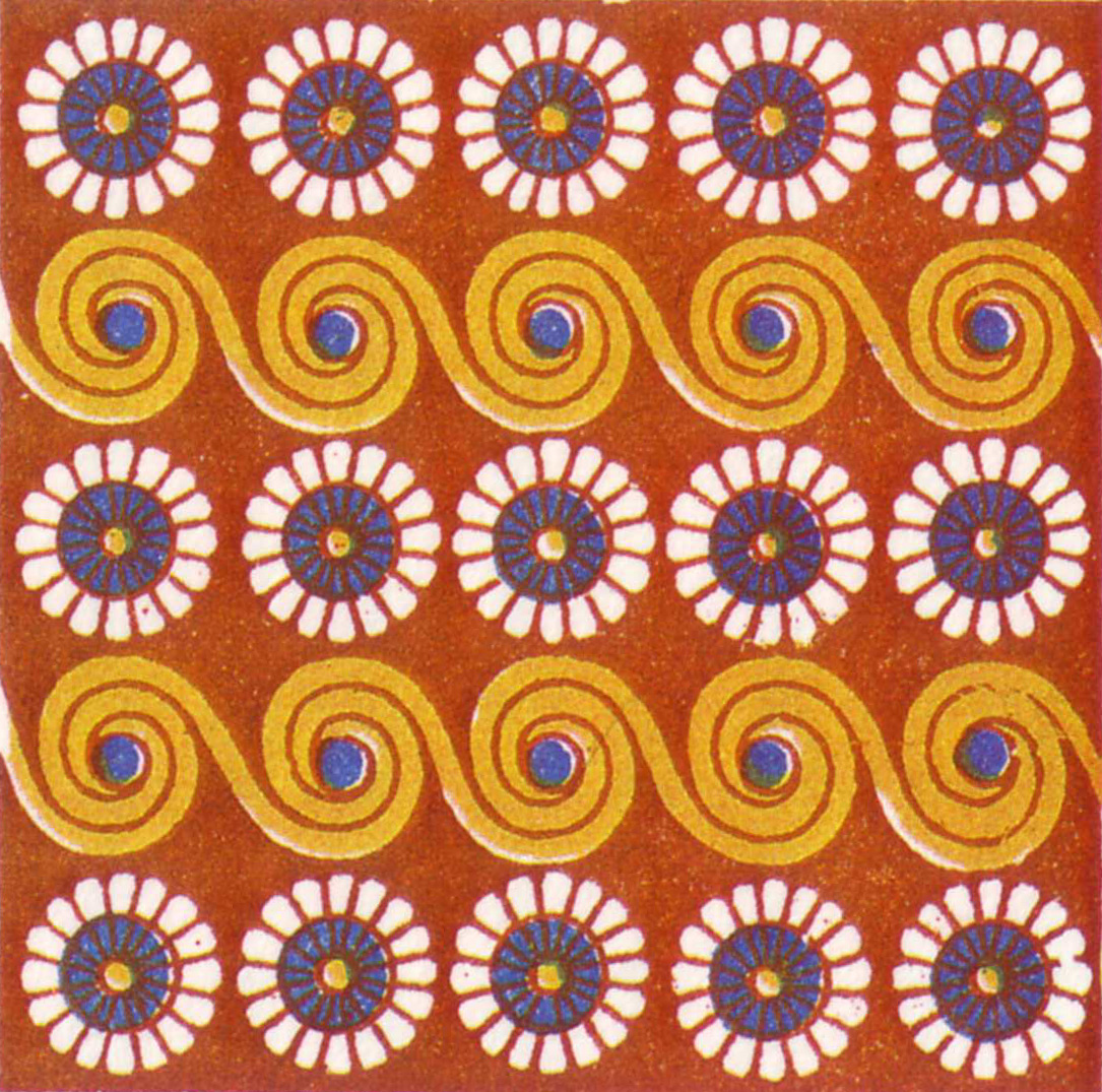 Example of wallpaper group type p2.